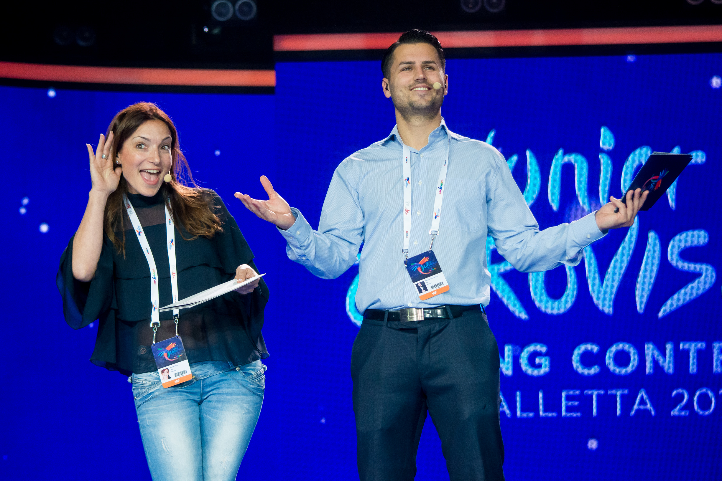 JESC 2016 presenters - Ben Camille and Valerie Vella